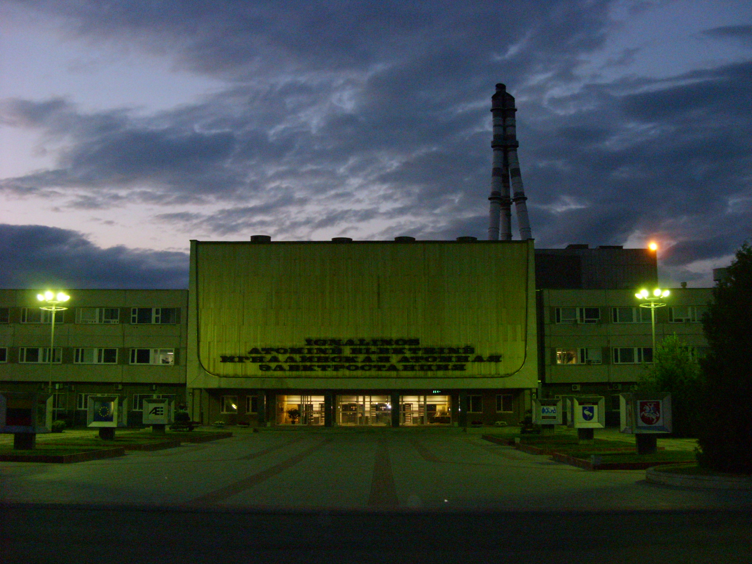 Ignalina Nuclear Power Plant, Visaginas, Lithuania.